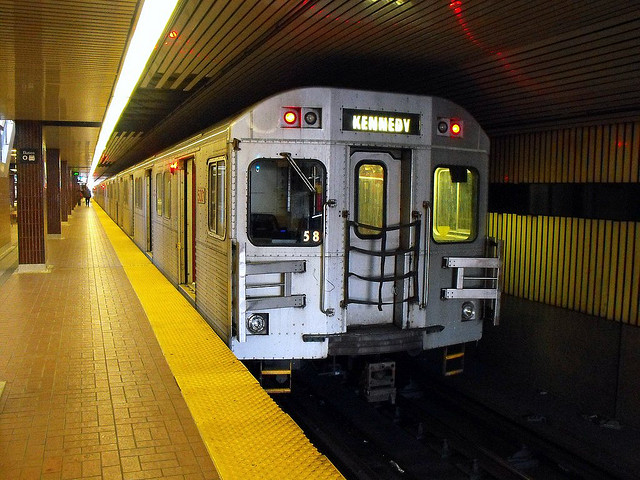 TTC Kipling subway station in Toronto. End of the line in a few minutes this train will turn around and head back east, an 1 hour trip form end to end.